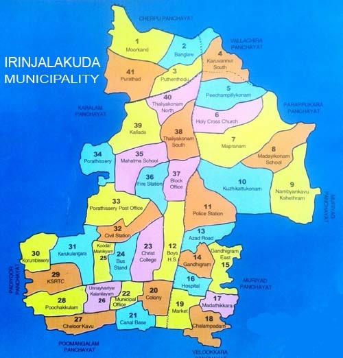 Irinjalakuda Muncipality Map 2010